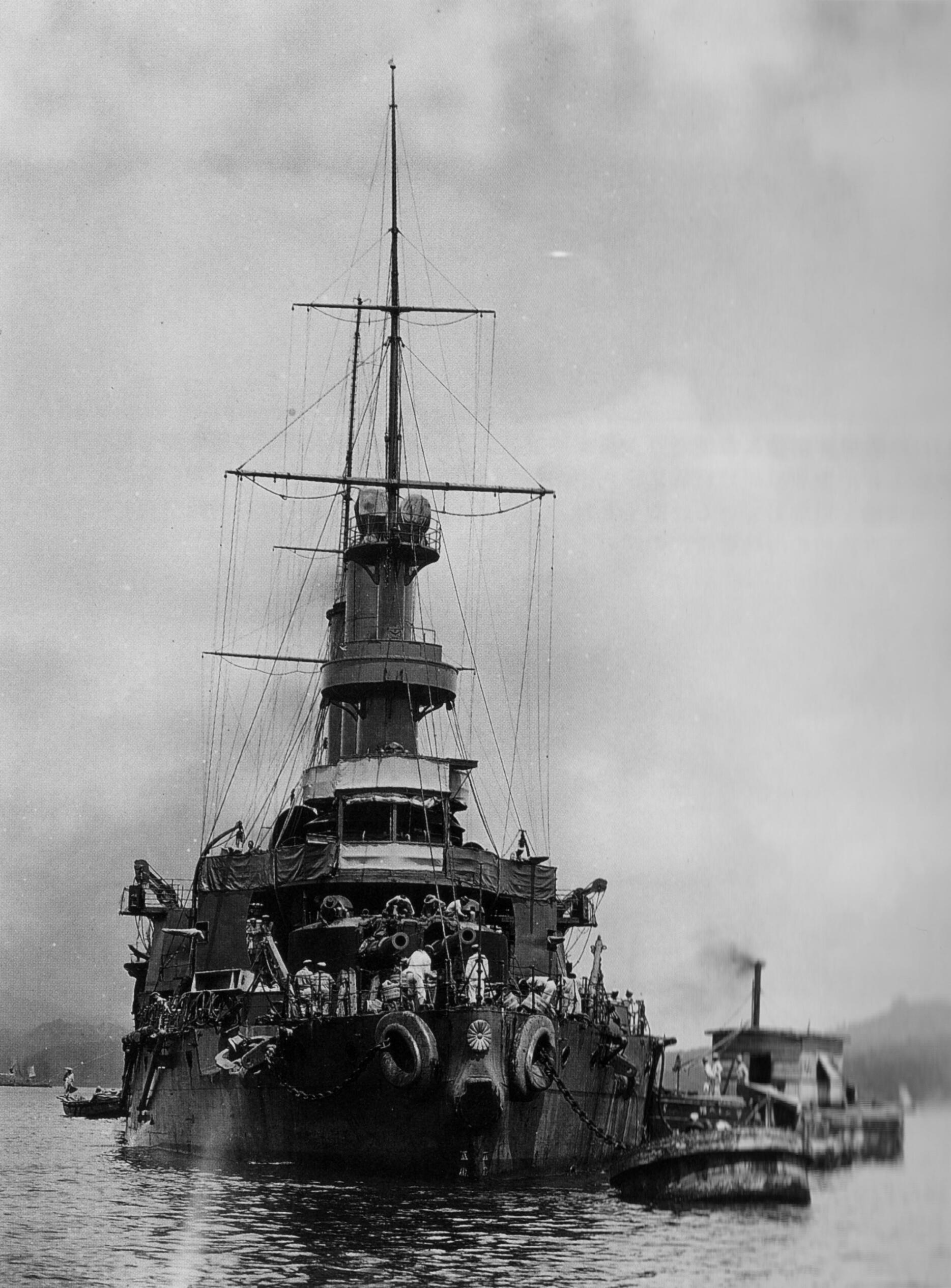 Imperial Japanese coastal defence ship Okinoshima at Sasebo, 31 July 1905.